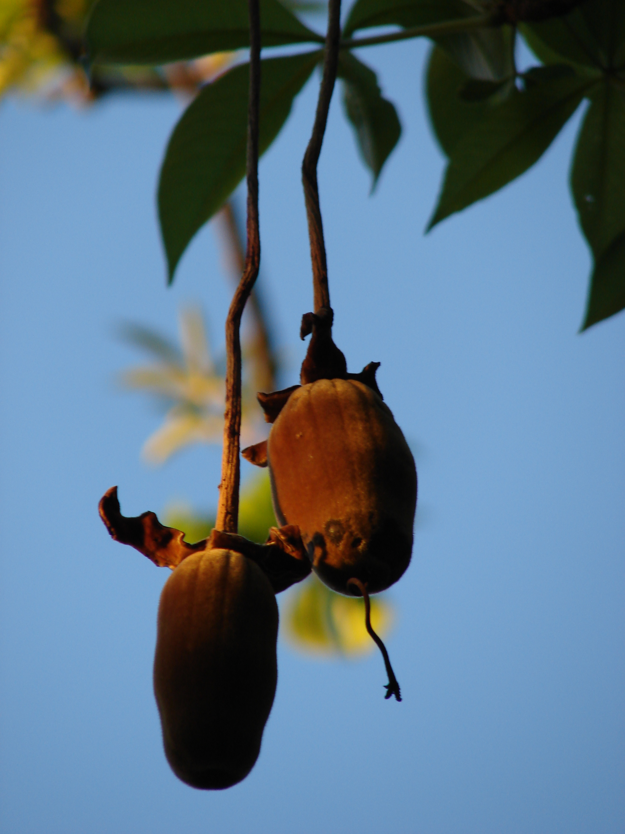 Adansonia digitata (hanging fruit). Location: Oahu, Ala Moana Beach Park